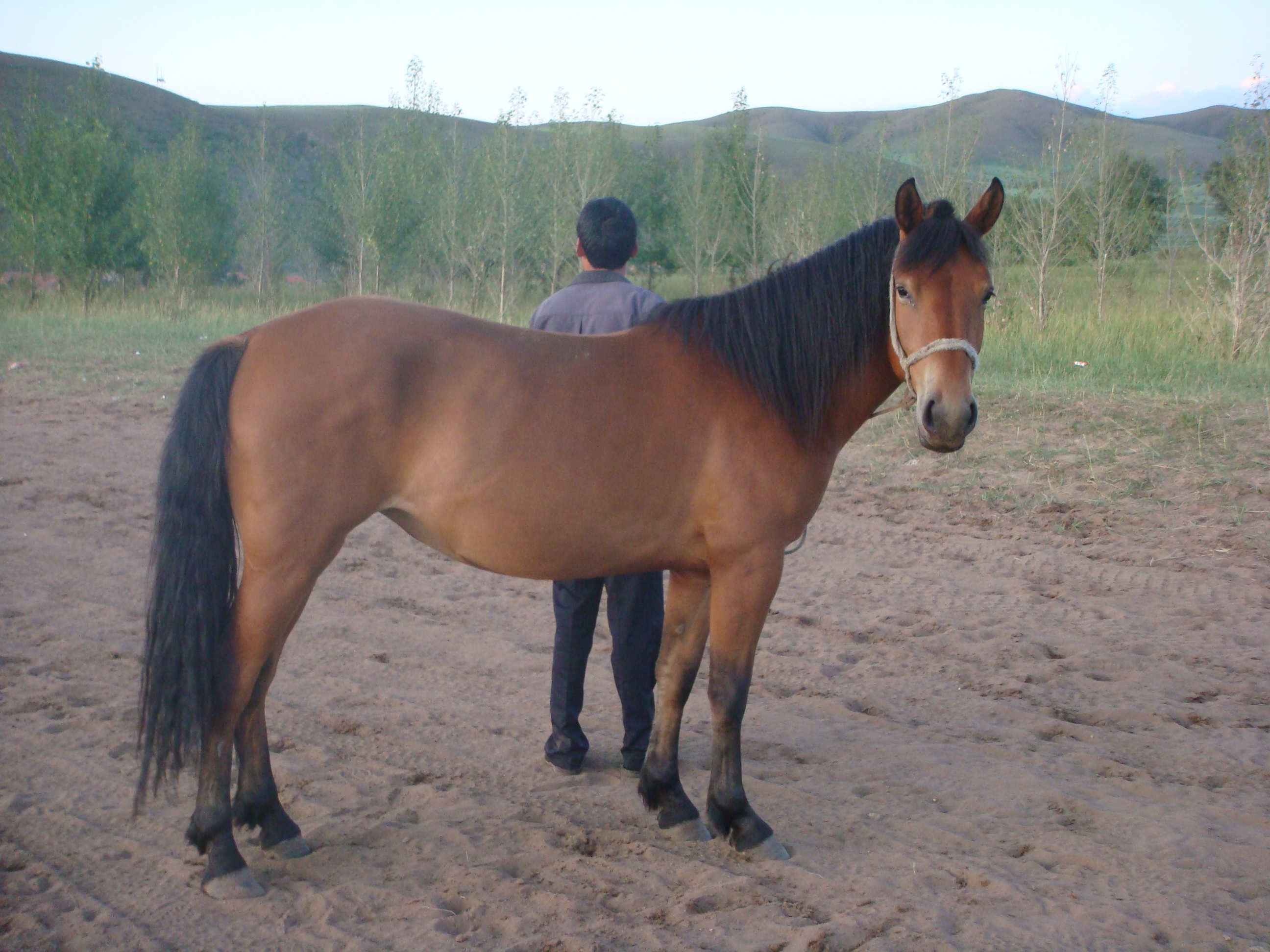 horse in mongolia